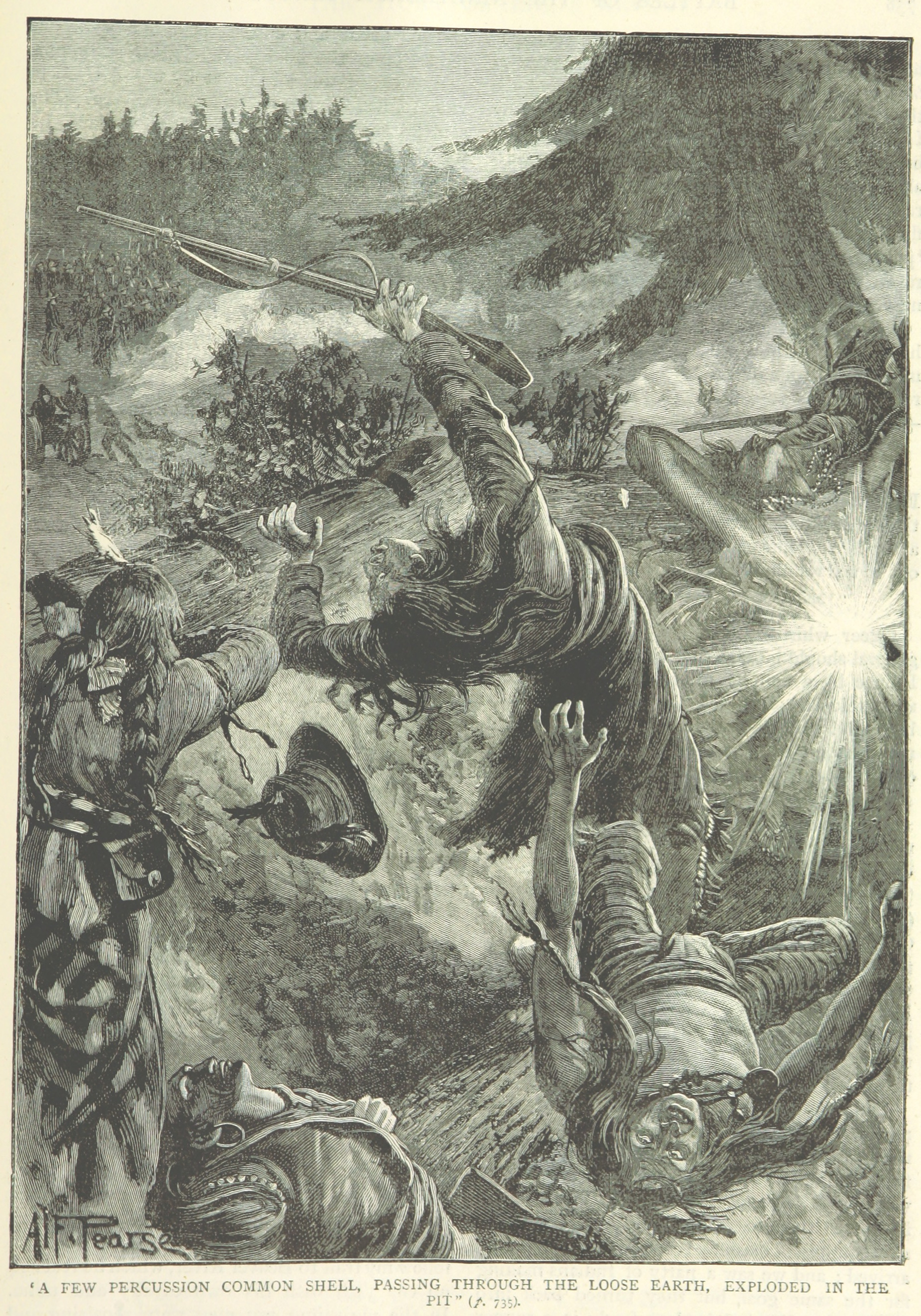 Canadian artillery fires on the Cree at the 1885 Battle of Frenchman's Butte.